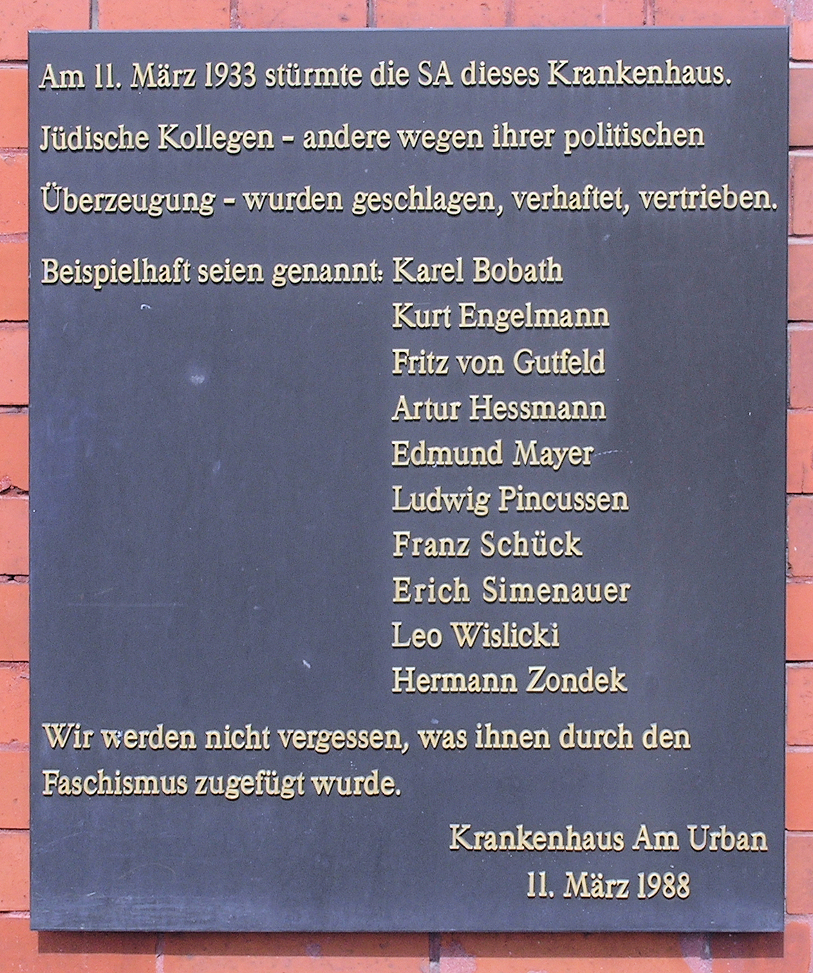 Memorial plaque, Krankenhaus am Urban, Dieffenbachstraße 1, Berlin-Kreuzberg, Germany Koordinate:52°29′36″N 13°24′38″E / 52.49333°N 13.41056°E